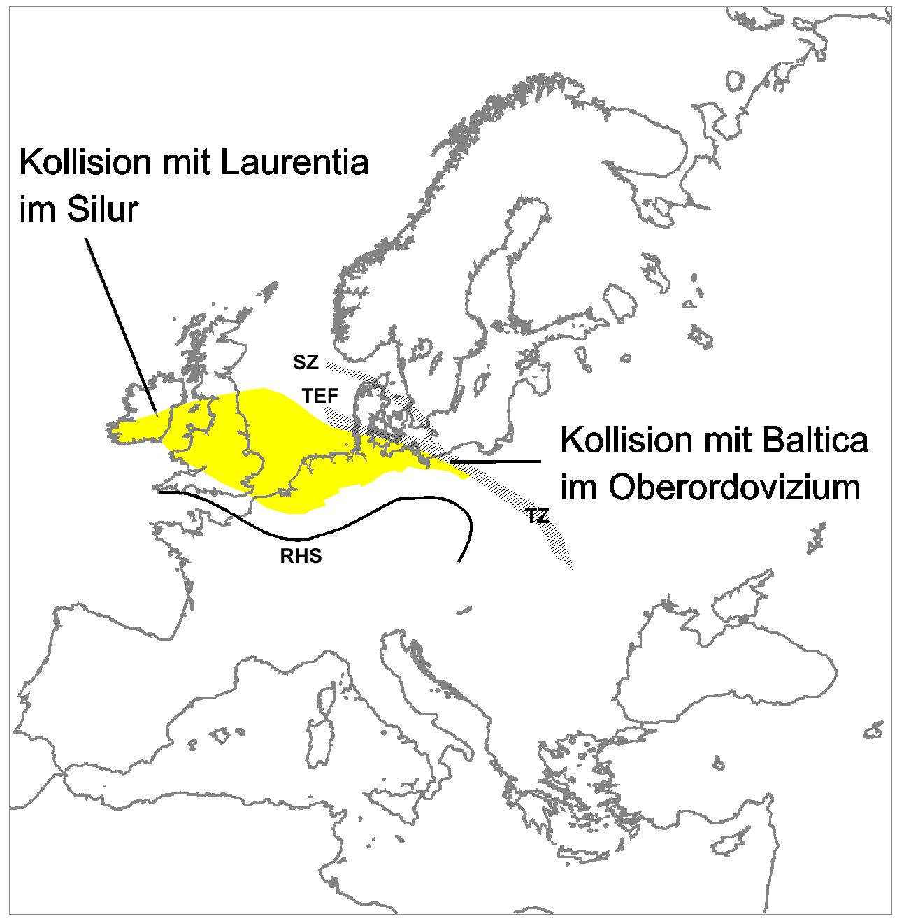 Avalonian basement in Europe